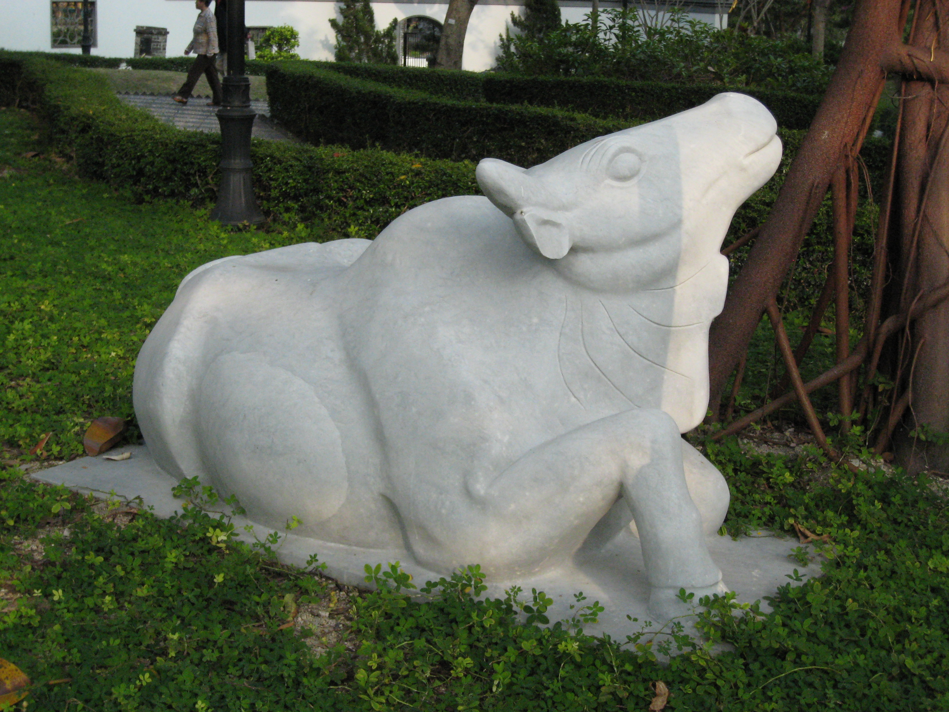 The Ox statue is one of the 12 Chinese zodiac portrayed in the Kowloon Walled City Park in Kowloon City, Hong Kong.